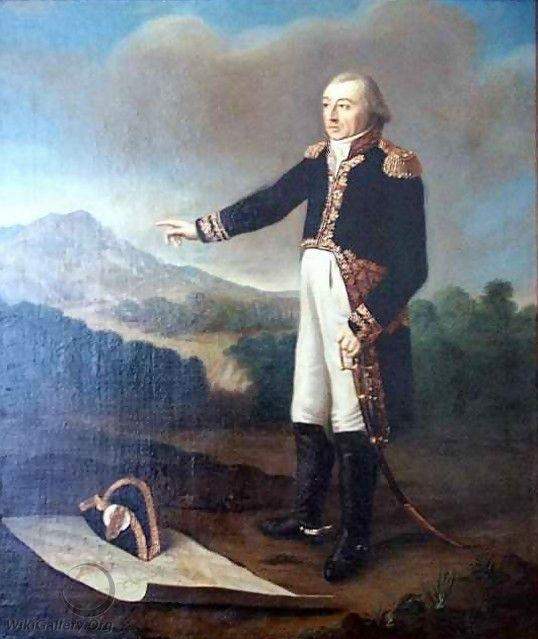 Portrait of General Pierre Dominique Garnier by Francesco Pascucci